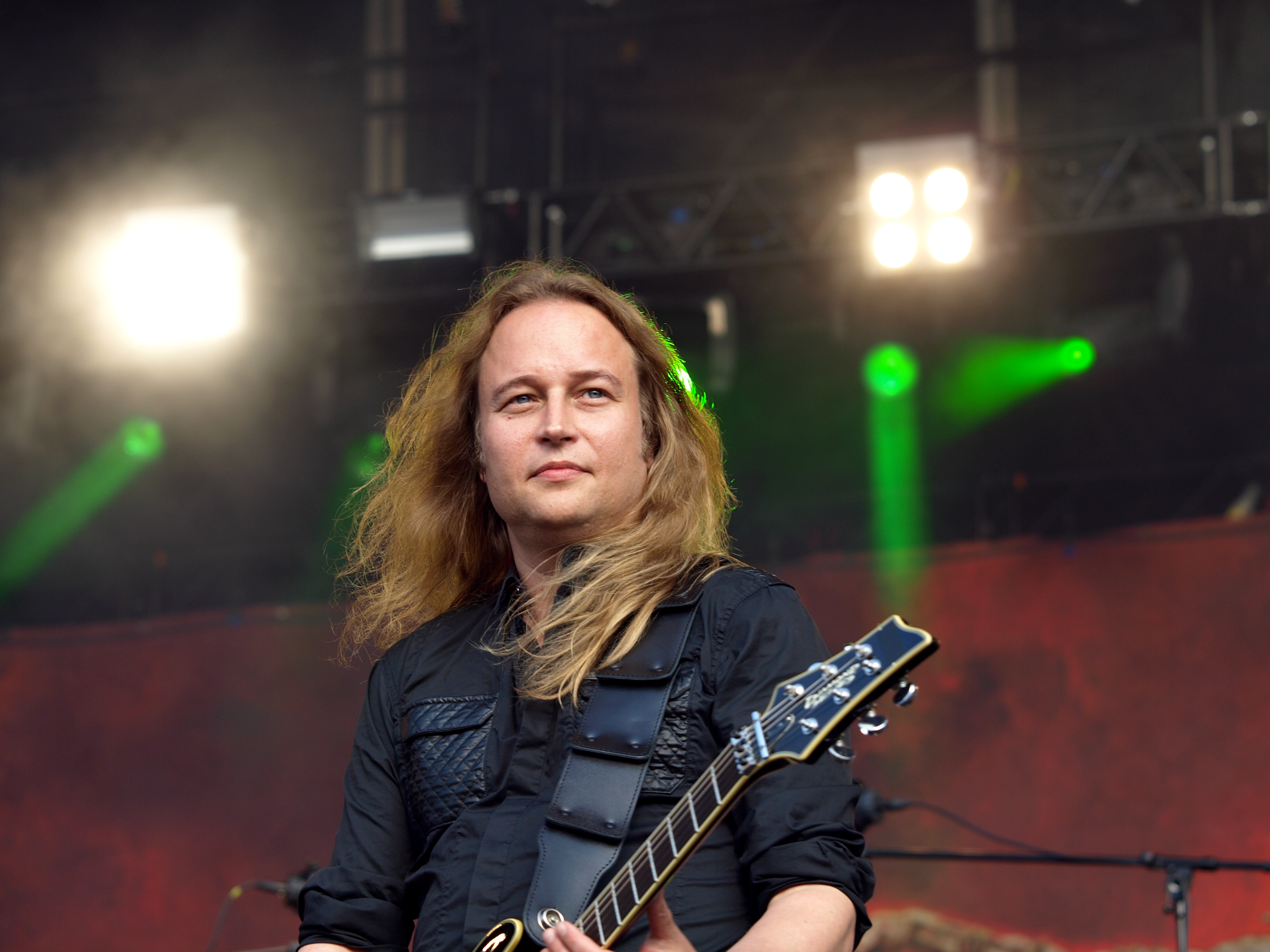 German thrash metal band Kreator live at Tuska Open Air 2013